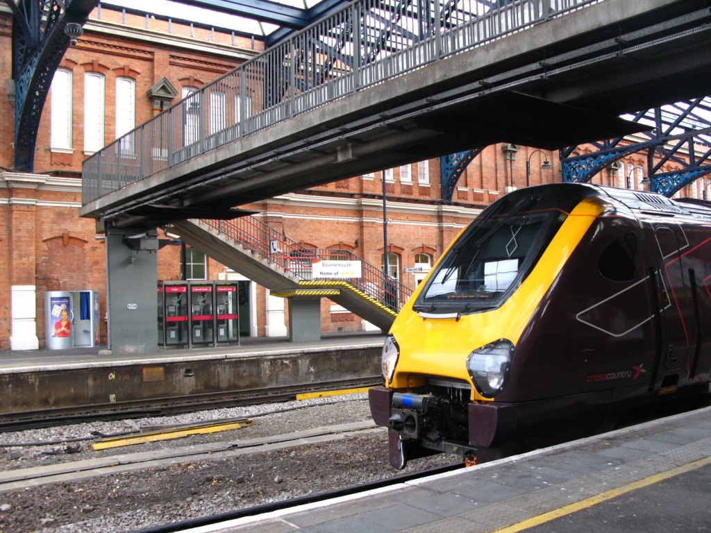 CrossCountry's 221131 stands beneath the footbridge at Bournemouth railway station in Dorset, England, having arrived with a sevice from Birmingham.